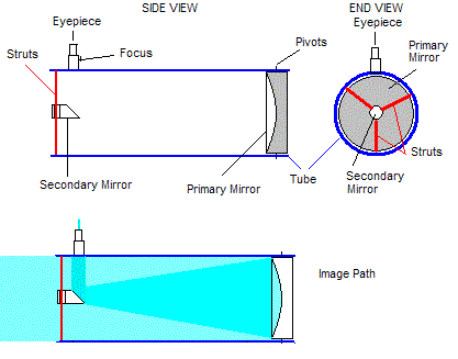 Simple Diagram of a Newtonian Telescope created by TMoore using MSPaint.